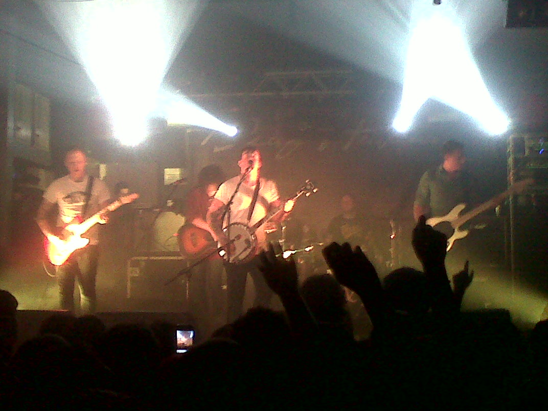 Deaf Havana - Birmingham 02 Academy 2 - April 2012